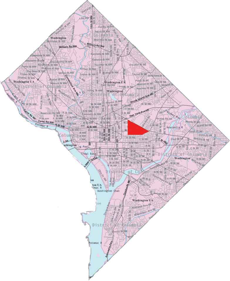 This image is a modified version of a self-generated reference map from the U.S. Census Bureau's American Factfinder at by Wikipedia user Msclguru.